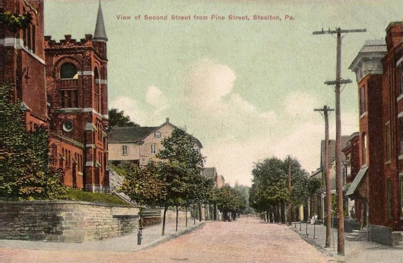 View of Second Street from Pine Street, Steelton, Pennsylvania